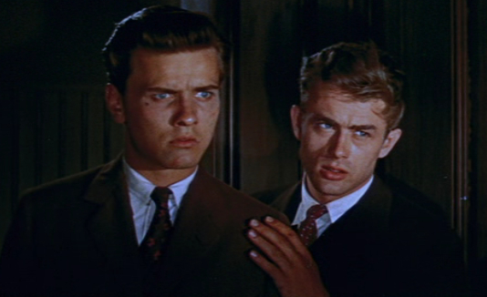 Cropped screenshot of Richard Davalos and James Dean in the trailer for the film East of Eden